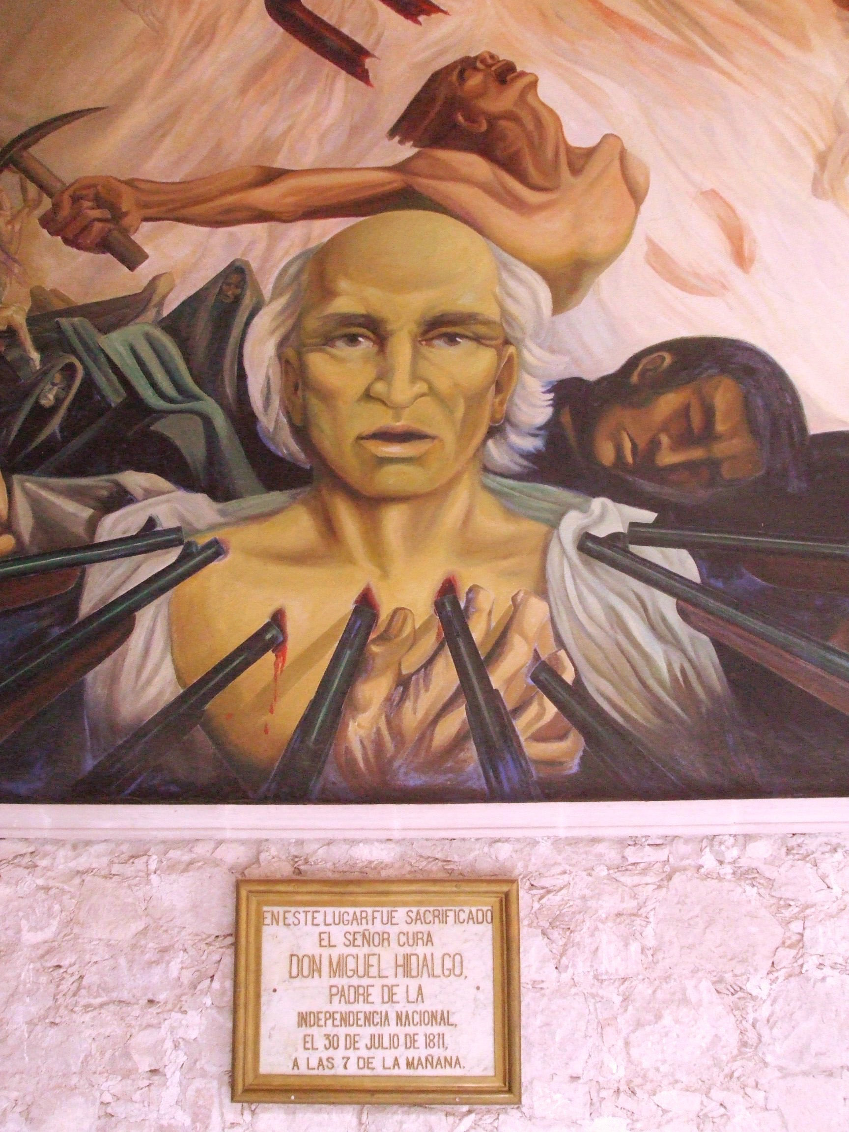 Panal of Government Palace mural depicting Hidalgo execution in Chihuahua. It is situated next to the spot where Hidalgo was killed.